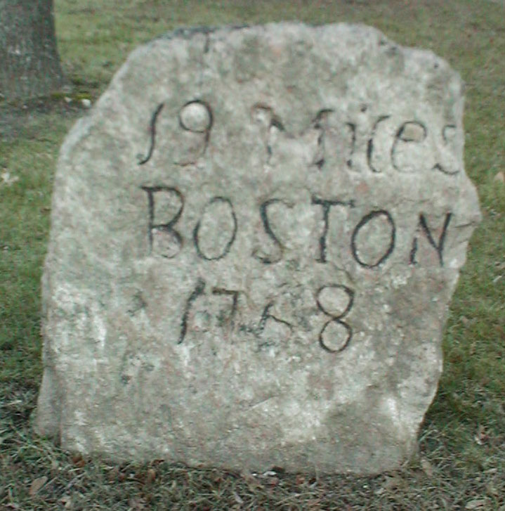 Boston Post Road Upper MP 19. Taken November 23, 2003 by User:SPUI.